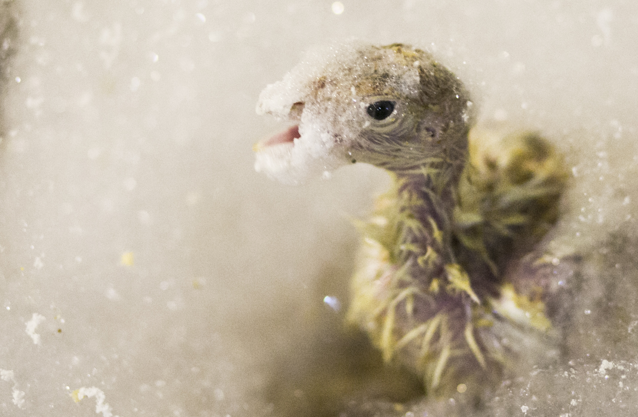 Avian influenza, poultry depopulation, extermination of chickens by foam, Israel